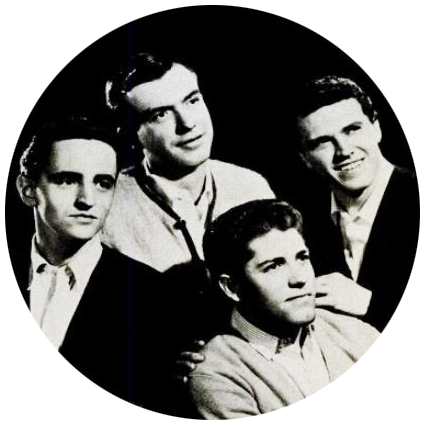 Trade ad for The Vogues's single "Turn Around, Look At Me".To better adapt it to his respective Wikipedia article, the ad was cropped and cleaned in a graphics editing program. The original can be viewed at the source below.